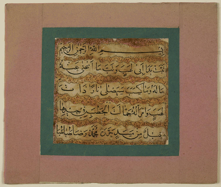 This calligraphic panel includes the bismillah at the top, followed by the Qur'an's 111th surah entitled al-Masad (The Plaited Rope), also known as al-Lahab (The Flame). Script: naskh.